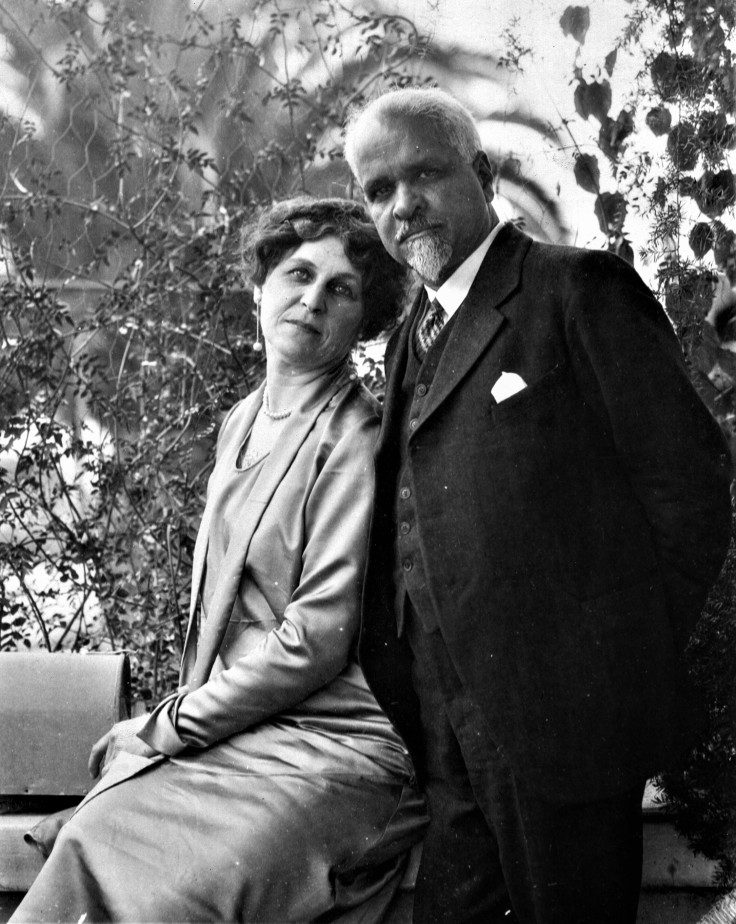 This is a photo of married couple Sakharam Ganesh (S.G.) Pandit and Lillian Stringer, likely taken around the time of their wedding in 1920 in or around Los Angeles, California.